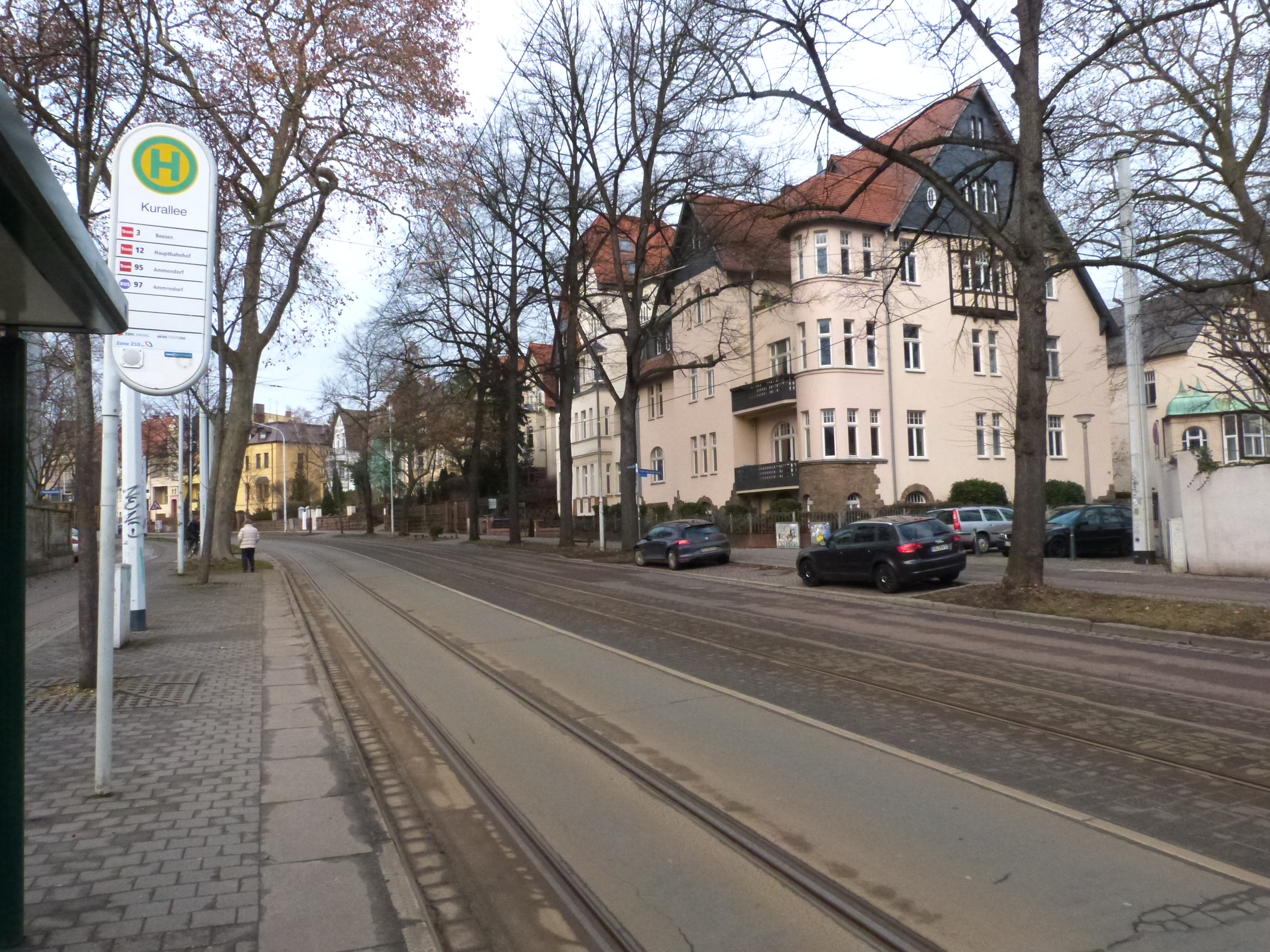 Street Reilstraße in Halle (Saale)